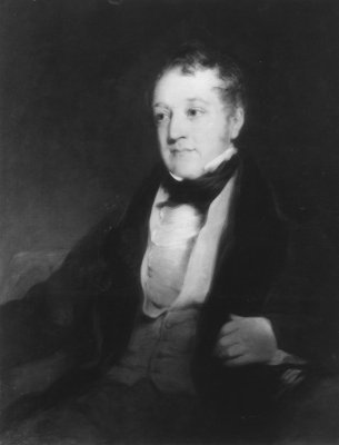 Portrait of William Huskisson